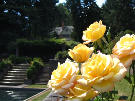 Yellow Roses at Lewis & Clark College in Portland, Oregon, USA.